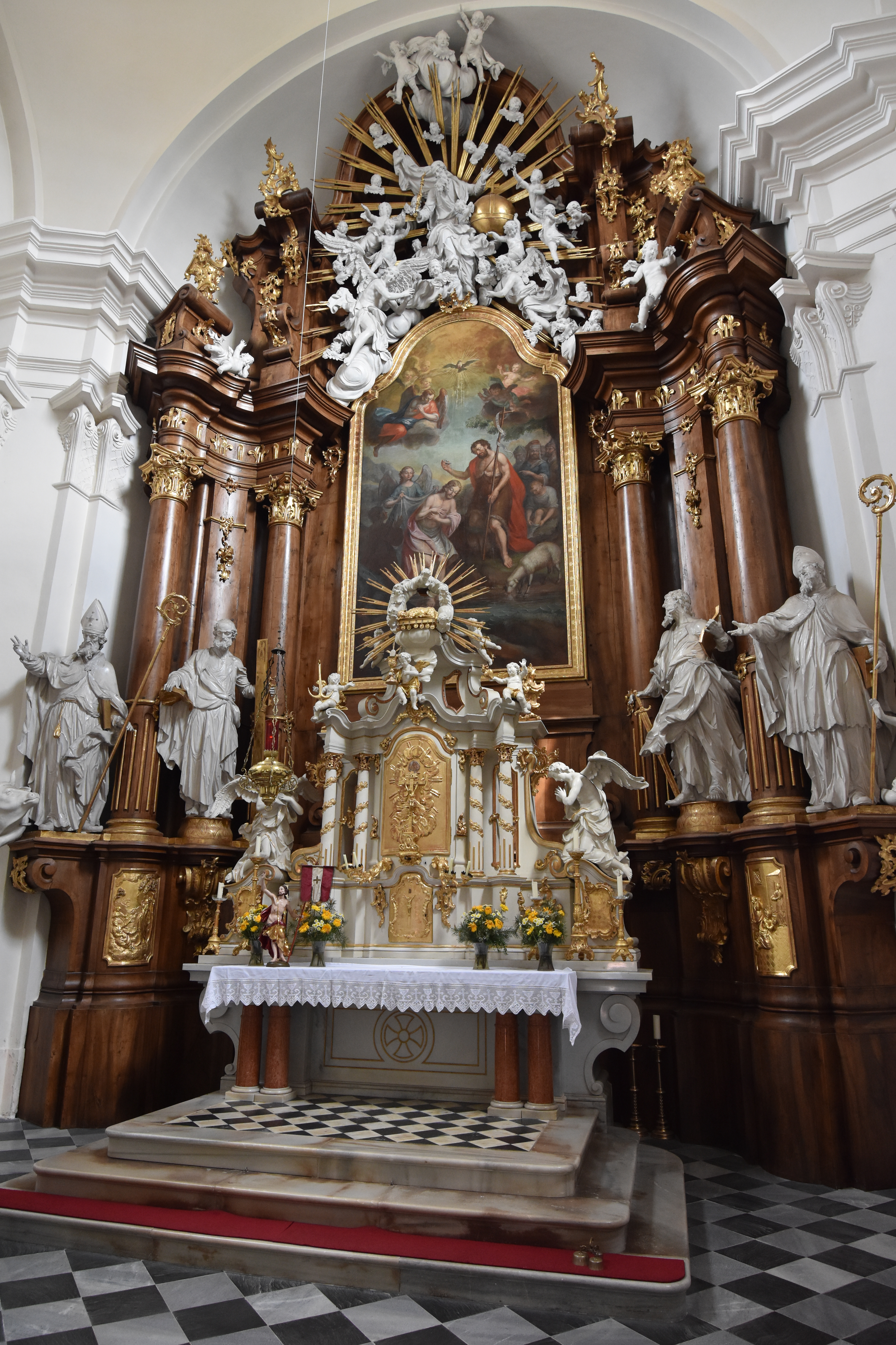 Church hl. Johannes der Täufer (Sankt Johann im Saggautal) - Interior